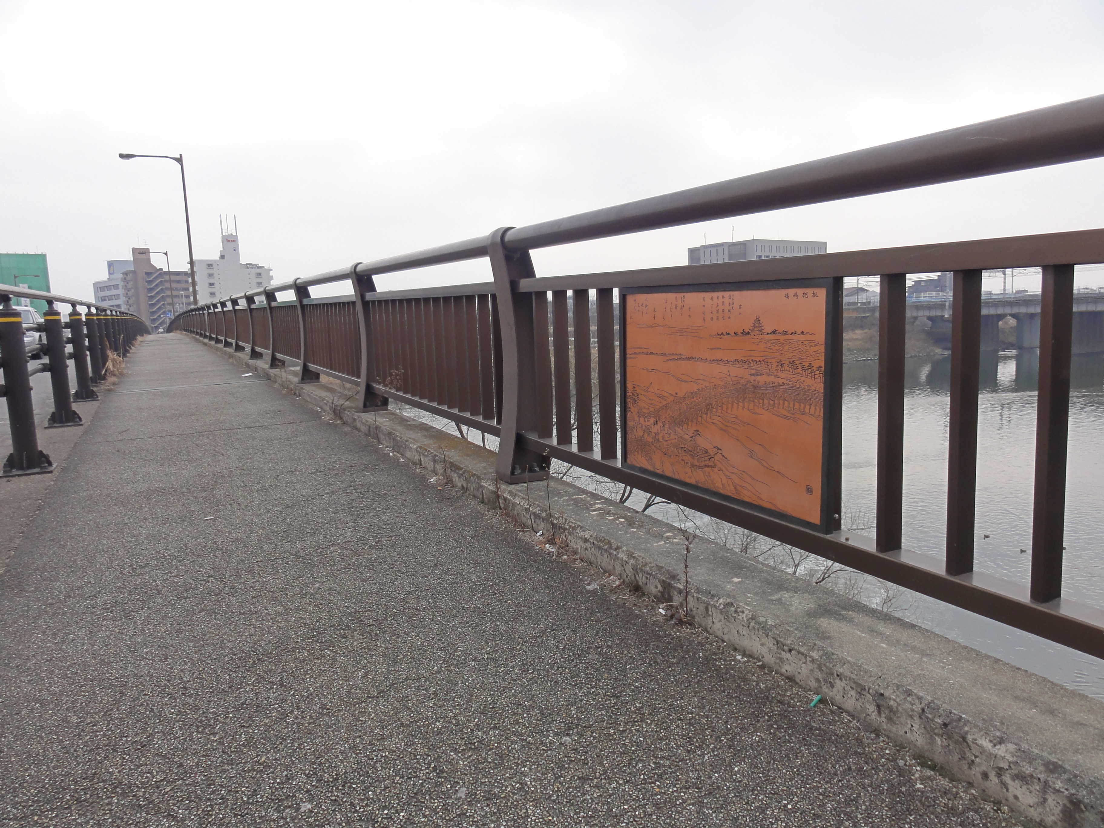 Biwajima-bridge(side walk),Aichi Pref.,Japan